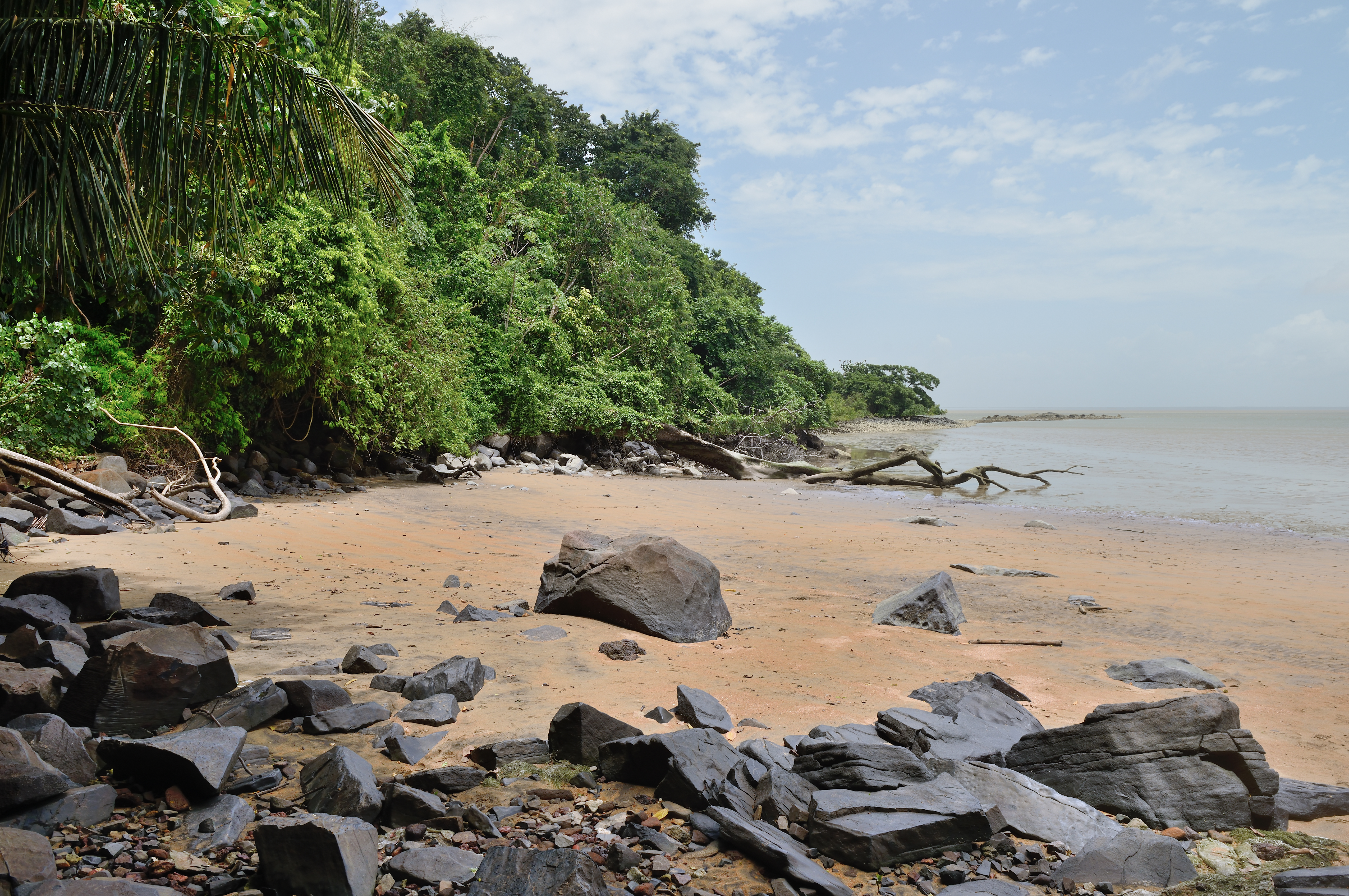 Ilet la Mère, Frenche Guiana: eastern shore.